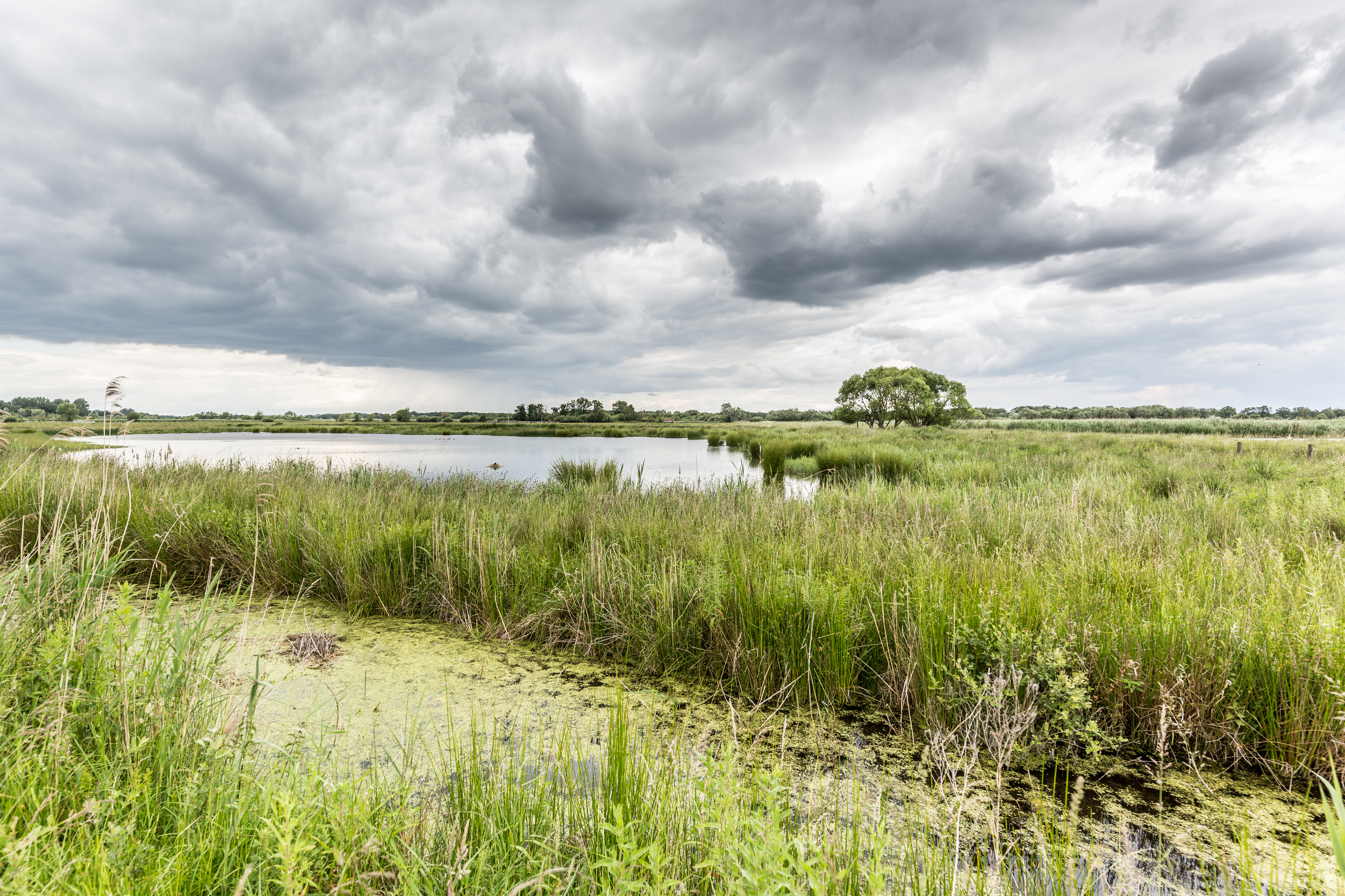 wide angle shot of the Rieselfelder in Münster (Germany)